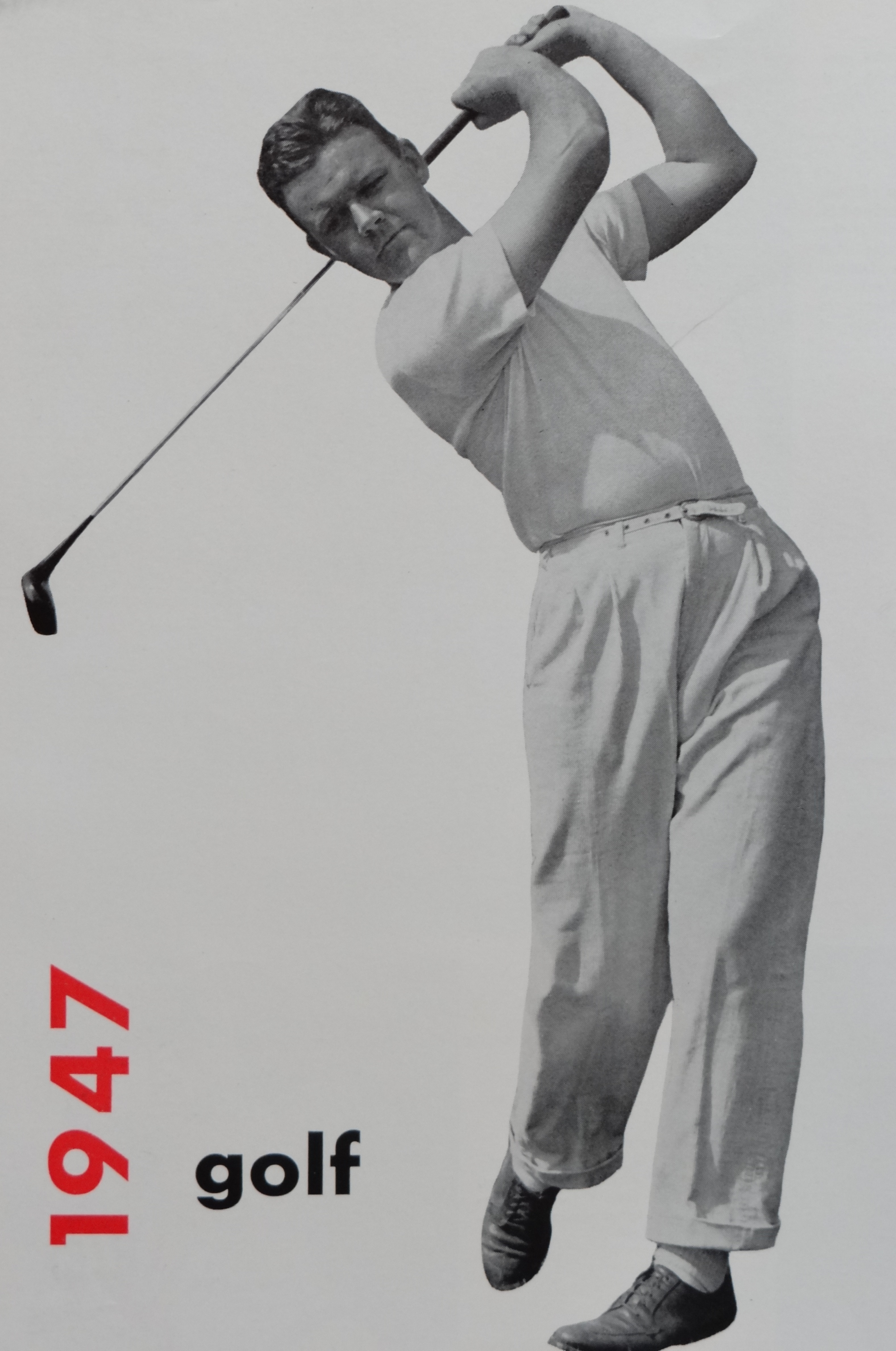 Photograph of University of Michigan golfer Dave Barclay. NCAA individual golf champion, 1947 Photograph of University of Michigan golfer Dave Barclay. NCAA individual golf champion, 1947